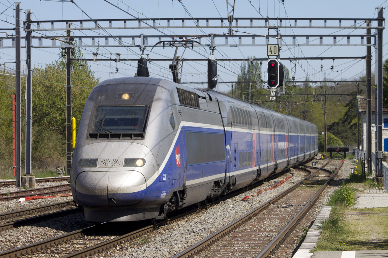 SNCF TGV Duplex 226 passing by La Plaine station while running as TGV 9744 from Genève to Montpellier Saint-Roch.